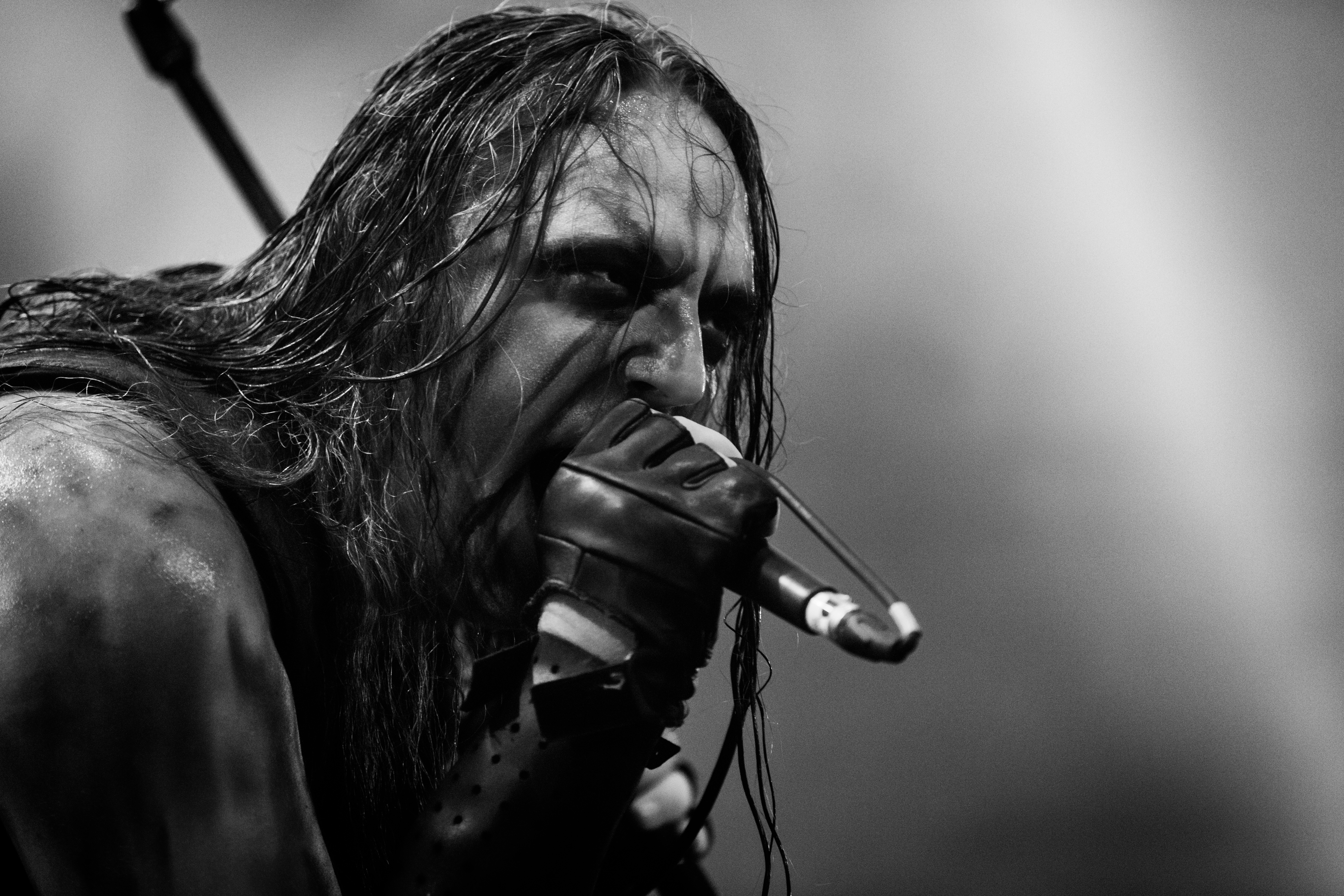 Marduk - Wacken Open Air 2016